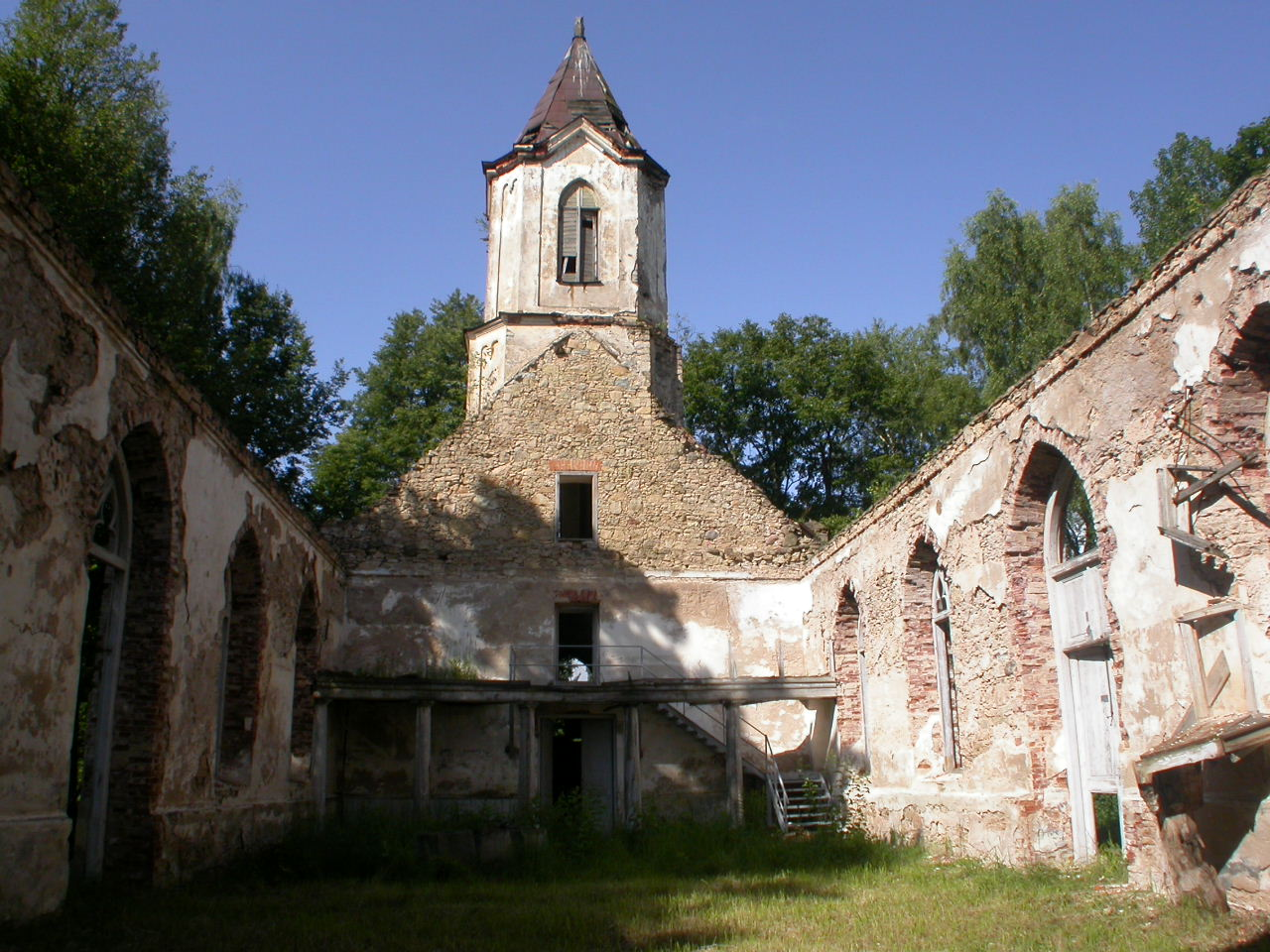 Ruins of Lutheran church in Selpils, Latvia